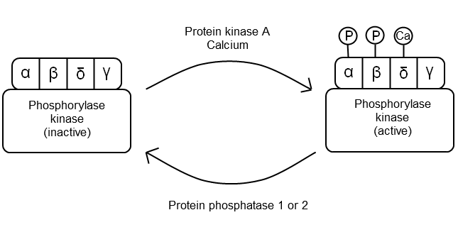 Simple cartoon depicting regulation of phosphorylase kinase activity.